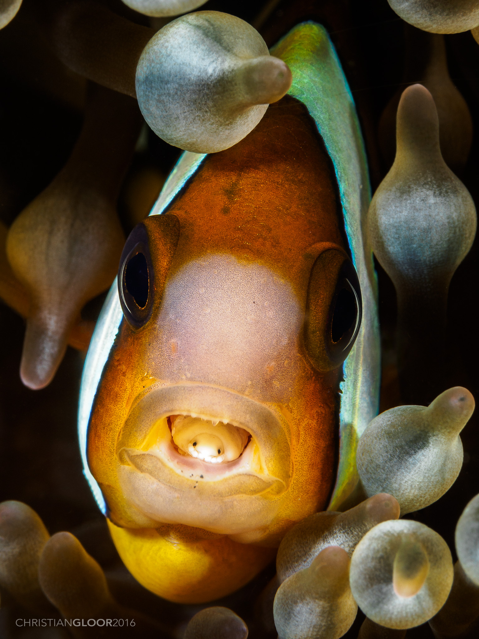 Clark's Anemonefish / Amphiprion clarkii - Cymothoa exigua This small isopod entered the clownfish's mouth through the gills and ate the host's tongue. Ultimately, the isopod completely replaces the tongue of the clownfish and will live there. Although this is terribly gross, the anemonefish's life is not directly threatened by this.